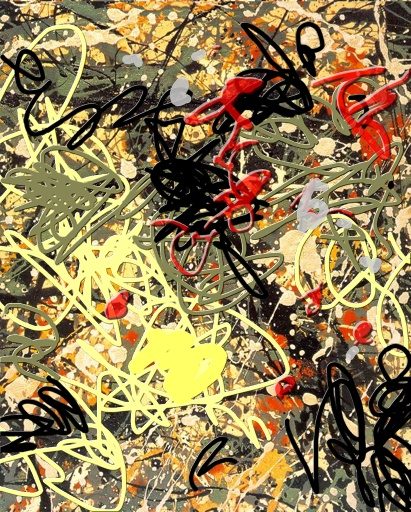 Action painting - own work. Somewhat similar to Jackson Pollock